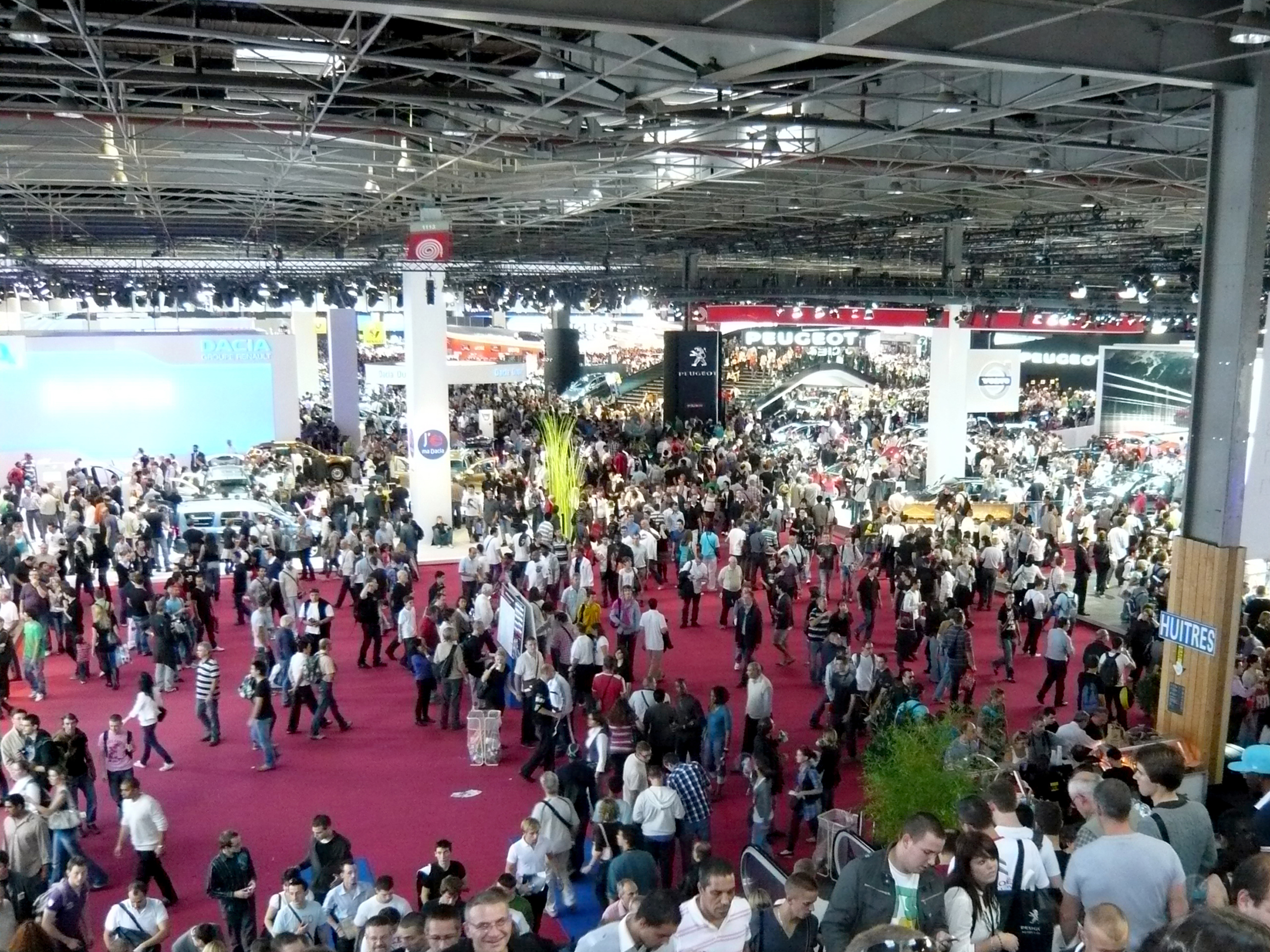 Mondial de l'Automobile de Paris 2010